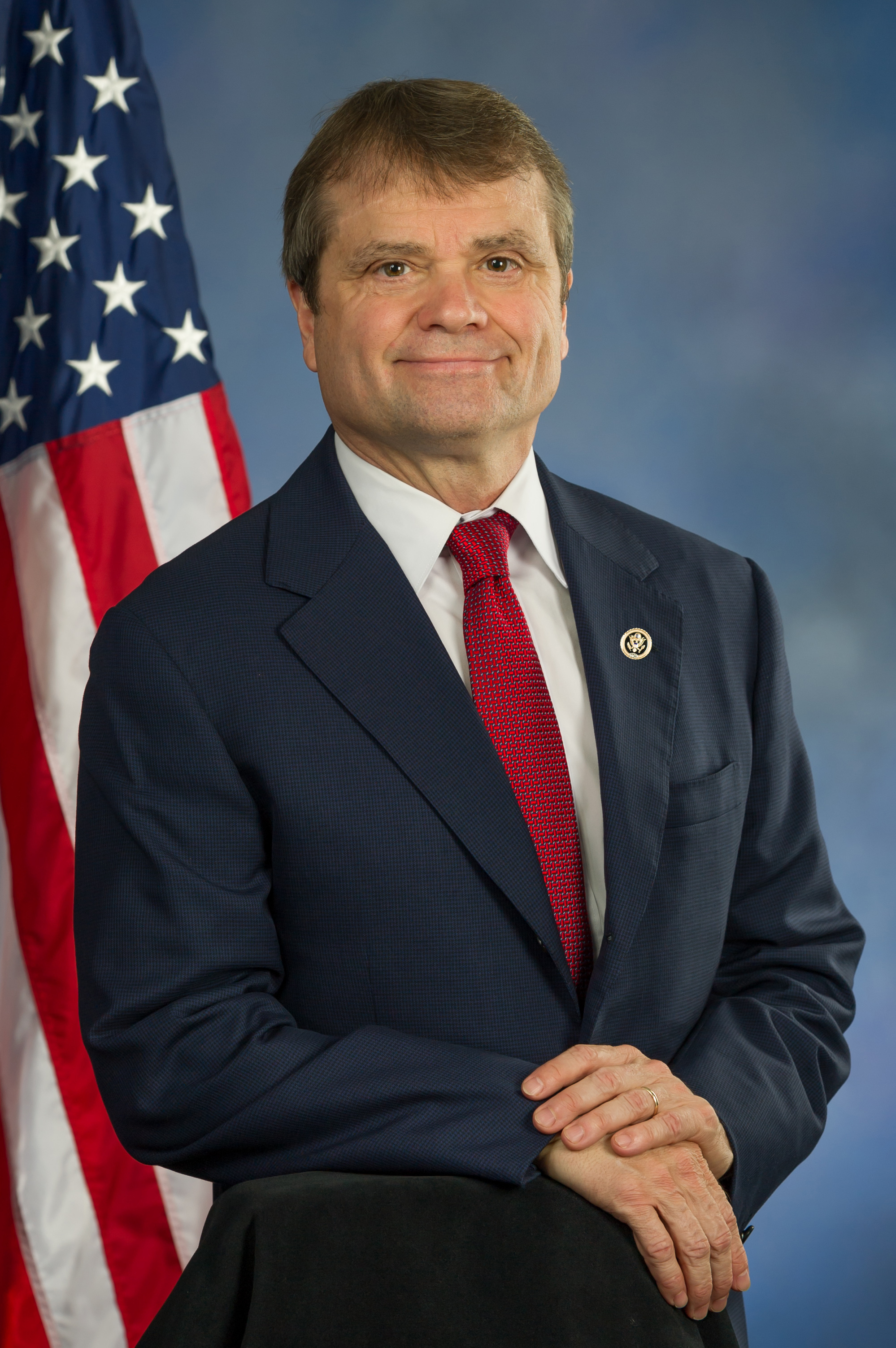 Mike Quigley official photo